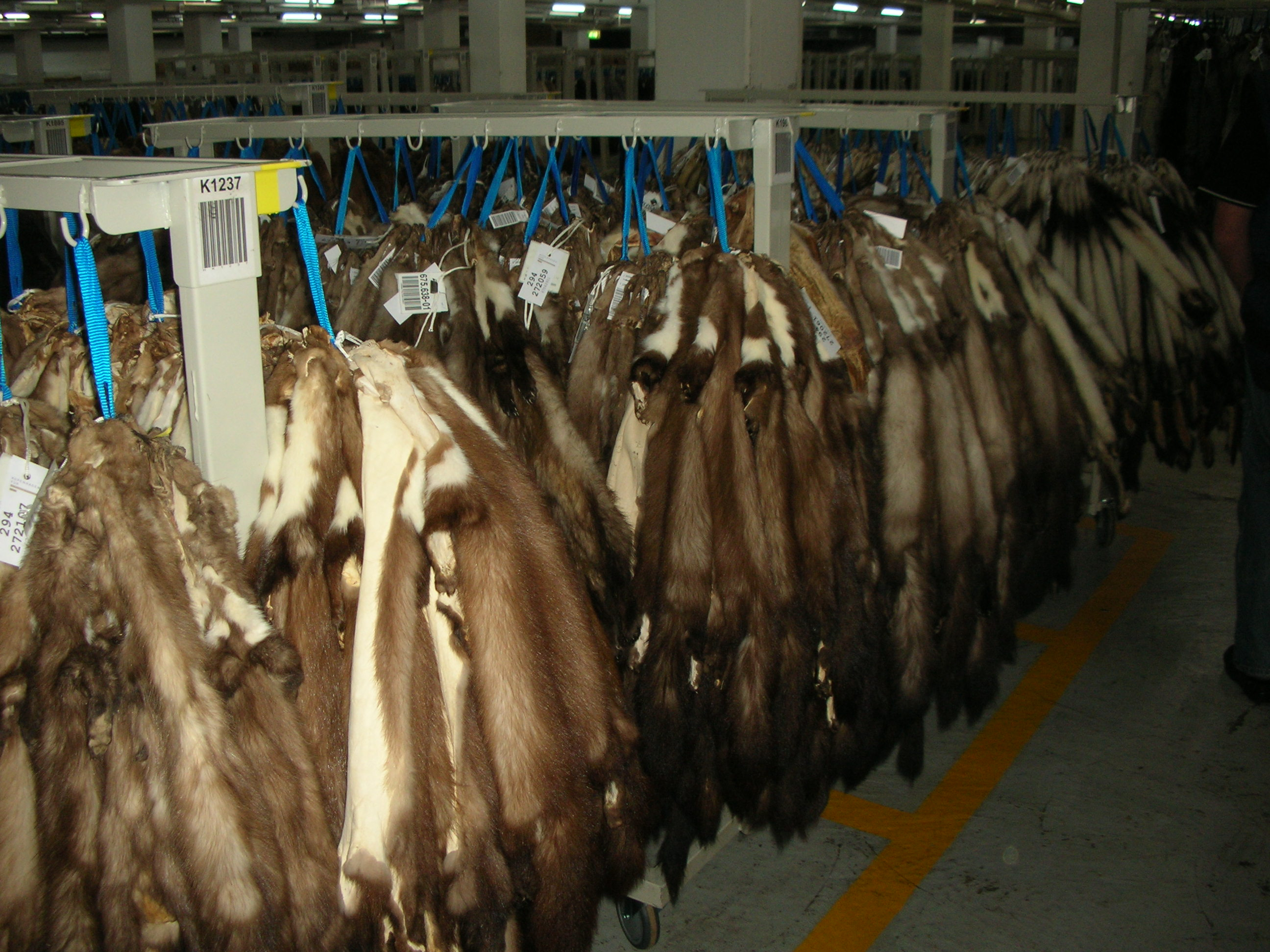 Stone marten pelts in the warehouse of the auction house Kopenhagen Fur.